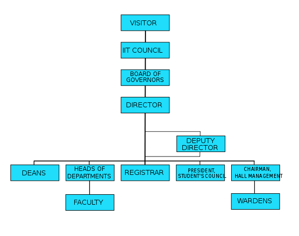 Organisational structure of the Indian Institutes of Technology Image drawn by me, =Nichalp «Talk»=, based on Ambuj.Saxena's :Image:IIT Organization Structure.PNG.